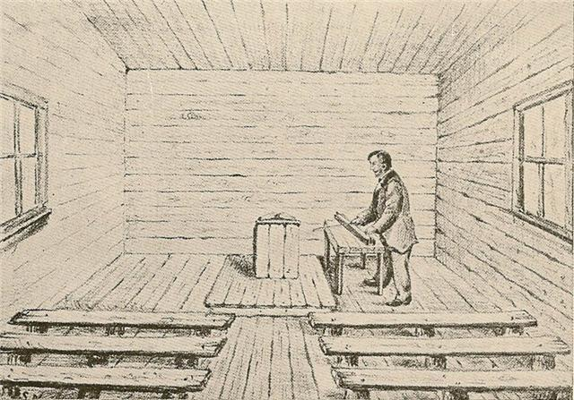 interior of the first church in Vasa